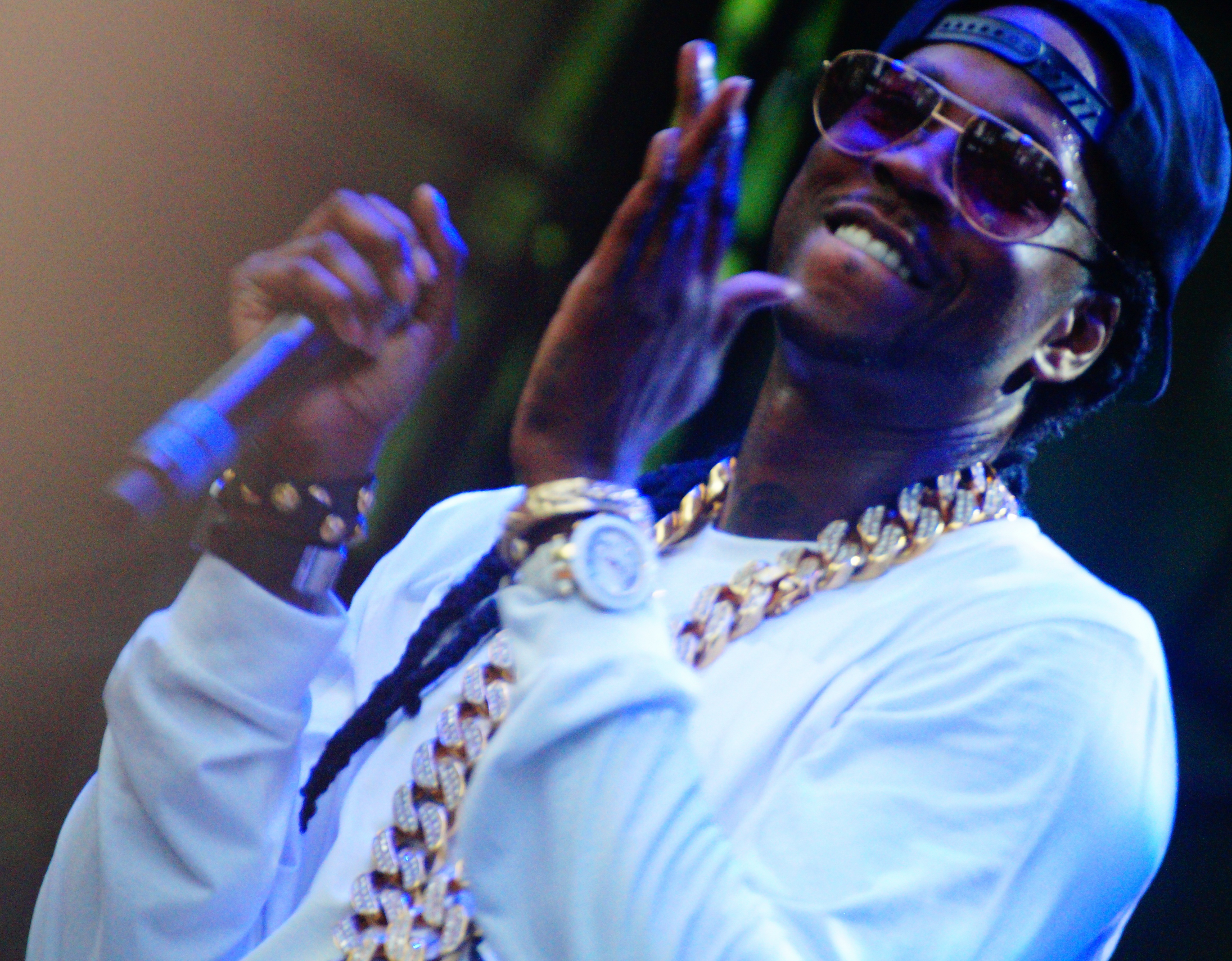 2 Chainz in 2014 May